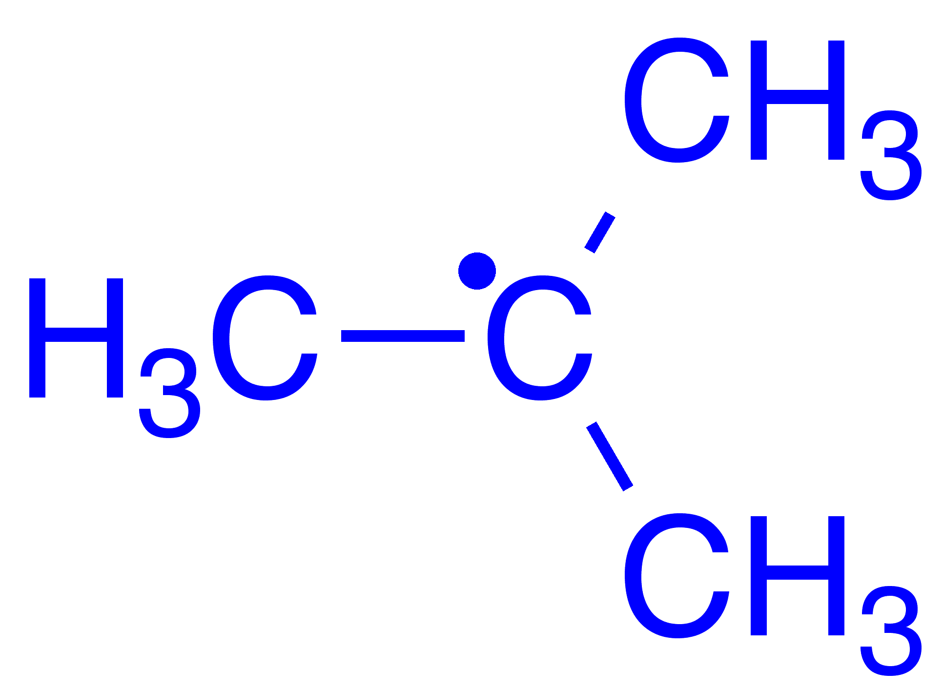 tert-Butyl_Radical